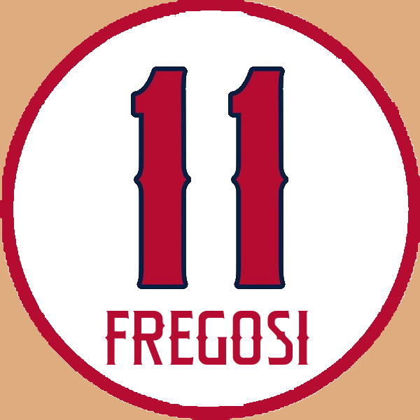 Illustration of Jim Fregosi's Retired Angels Number